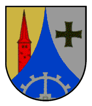 Coat of arms of Waldbreitbach